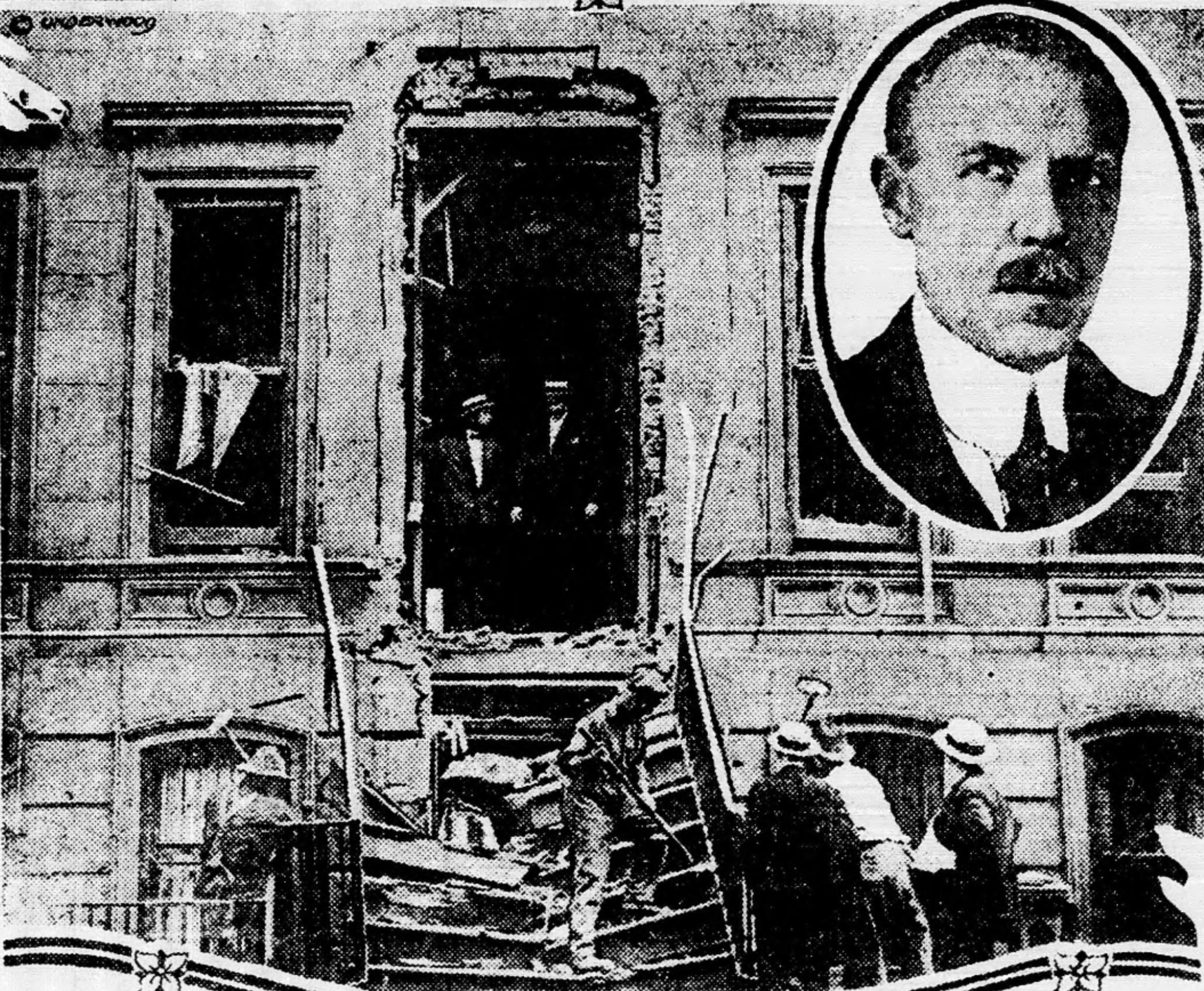 This is the front of Judge Charles C. Knott's house, 151 East 61st Street , in New York after an anarchist bomb had been exploded in the entrance, on bit of violence in the nation-wide Bolshevist plot. A woman passing the house was killed and Mrs. Knott was thrown from bed by the violence of the explosion.